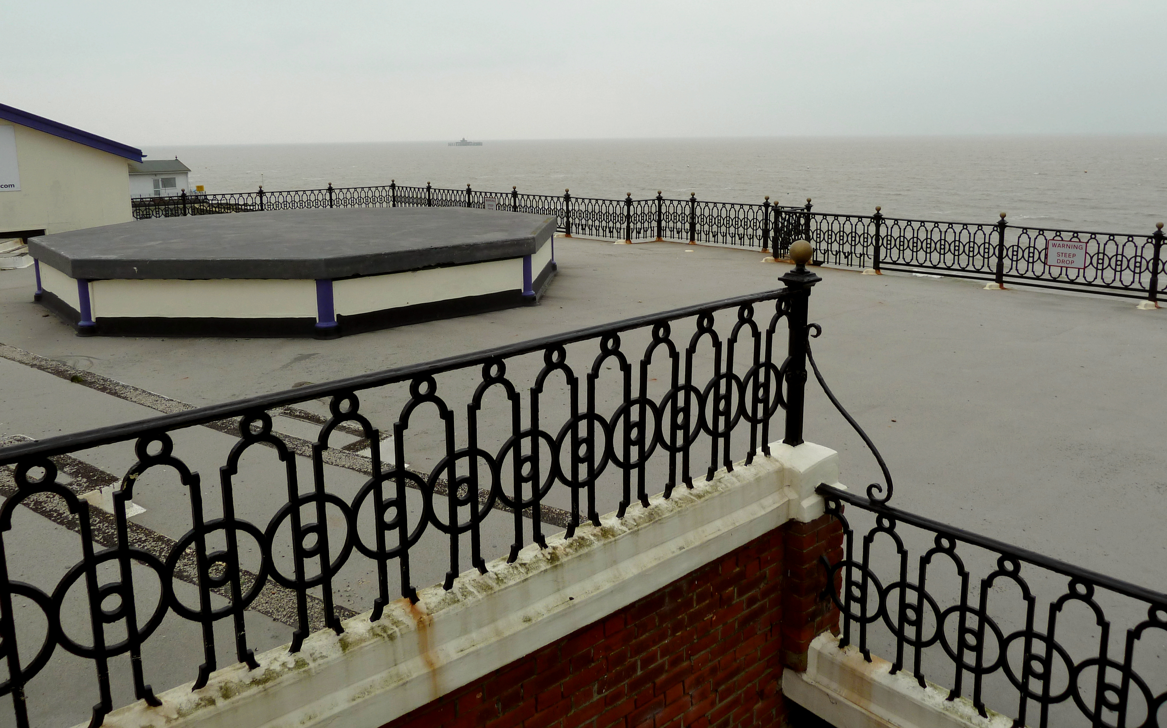 Kings Hall, Herne Bay, Kent England. Roof of vestibule, showing remains of 1913 bandstand, and part of terraces originally designed for deckchairs. Looking north-west, showing remains of end of pier in background.